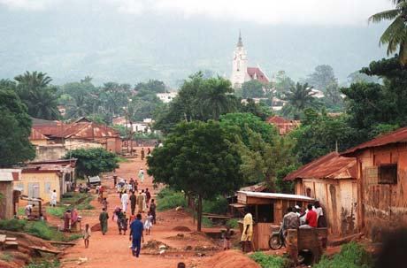 Approach to Kpalime from the Ghana side